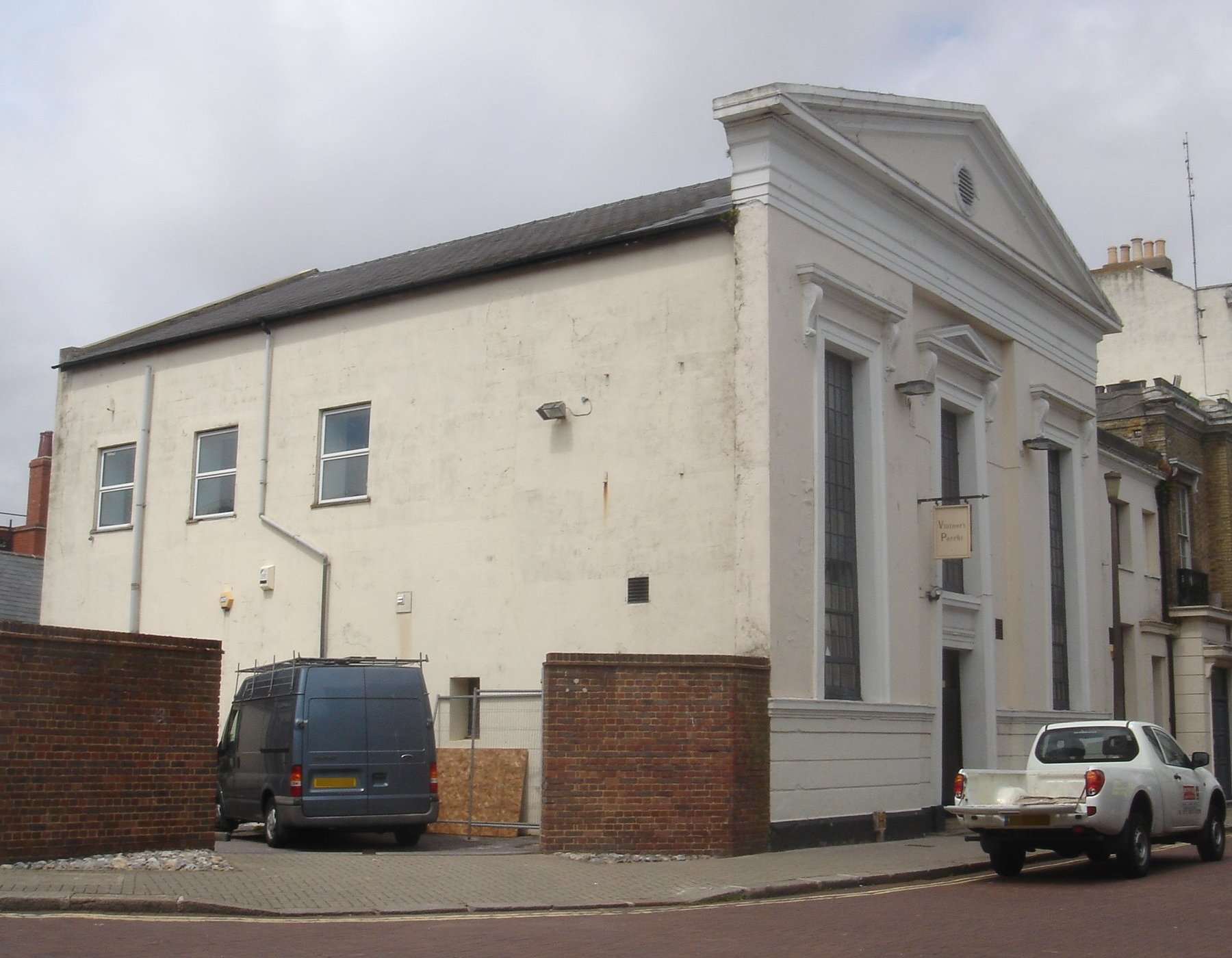 Former Bedford Row Methodist Church (Bedford Hall), Bedford Row, Worthing, West Sussex, England. Built in 1839 with Neoclassical pediment and Egyptian Revival tapering windows. The congregation moved to a new church in 1900. The building is now the function room of the Vintners Parrot pub.